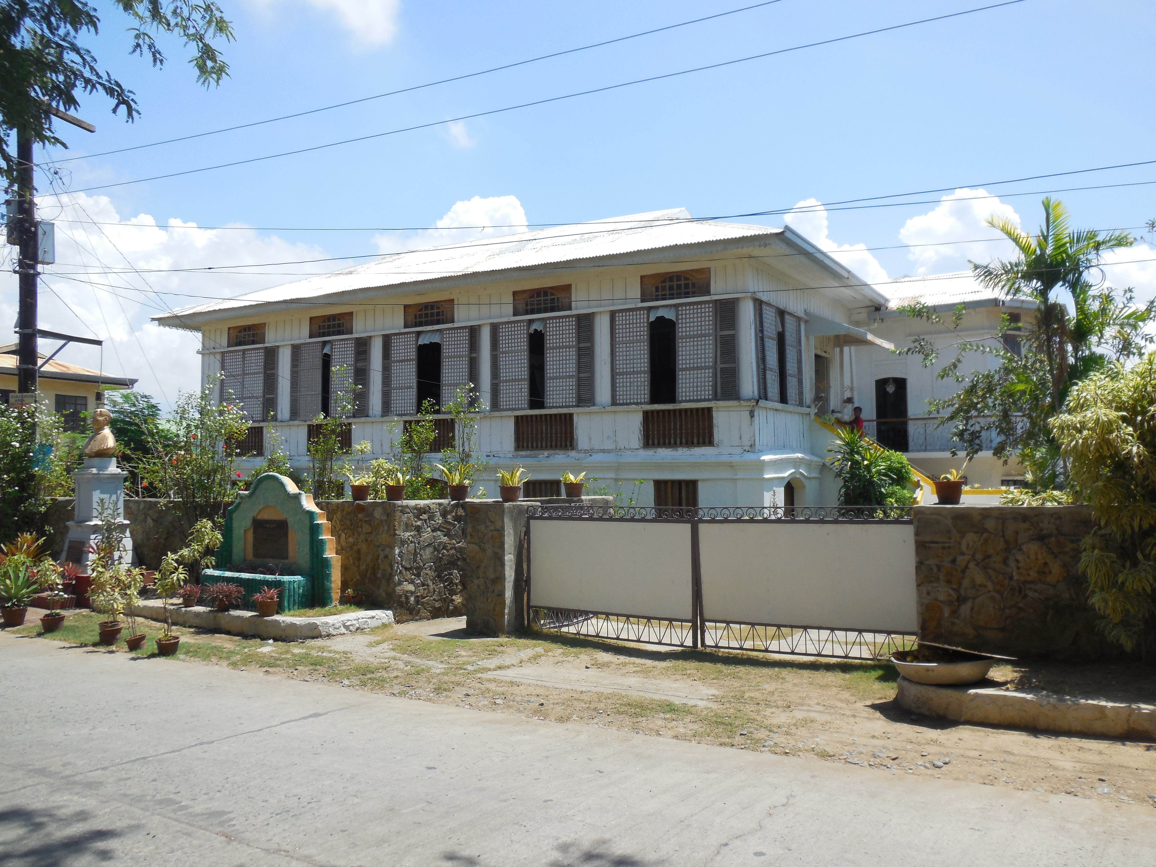 The ancestral house of Don Dimas Querubin, among Caoayan, Ilocos Sur's most famous individual.